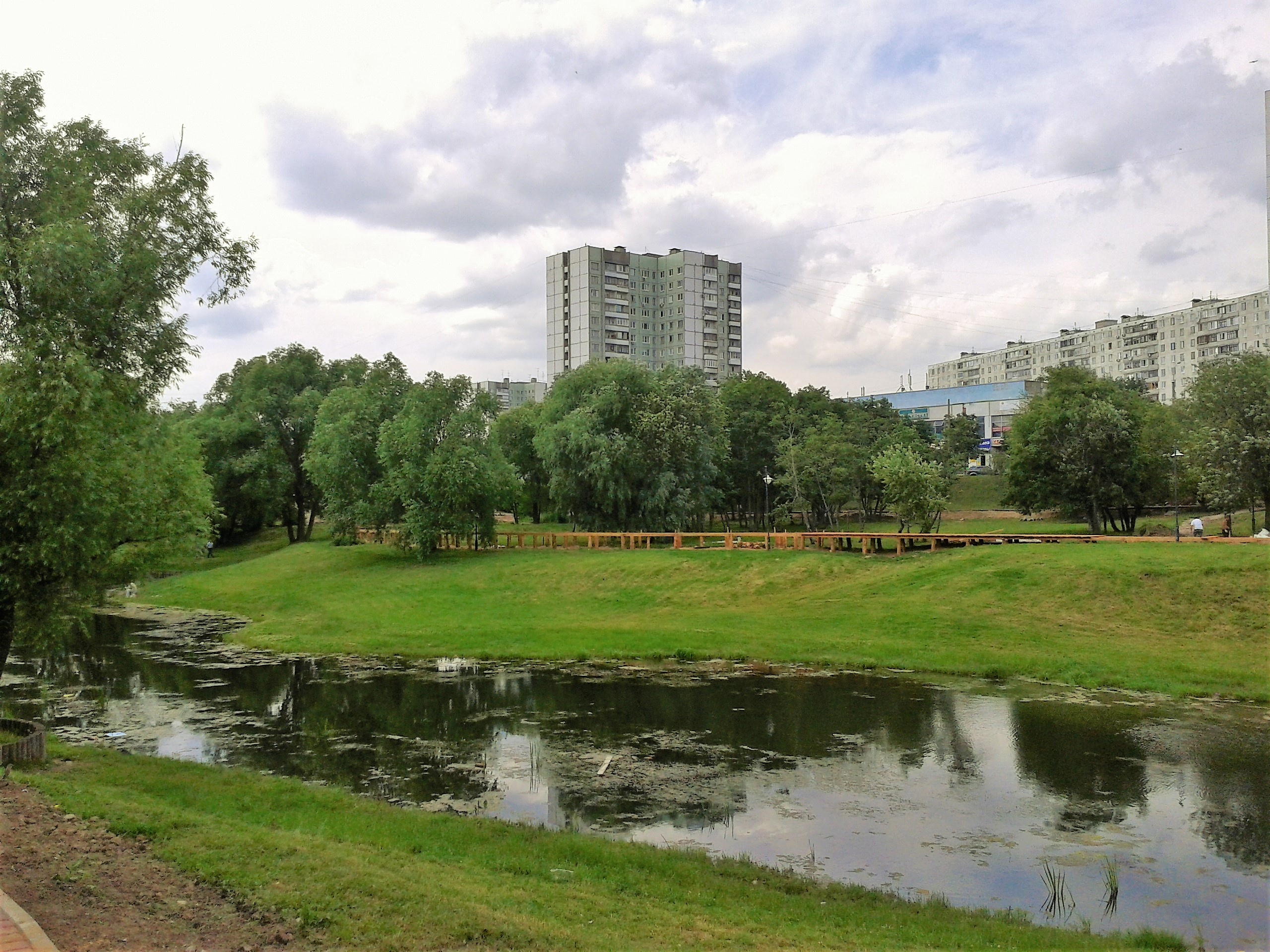 Moscow, Belozerskaya street, 17